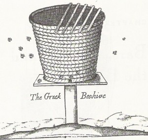 The Greek Beehive, as depicted in George Wheler's book from 1682.